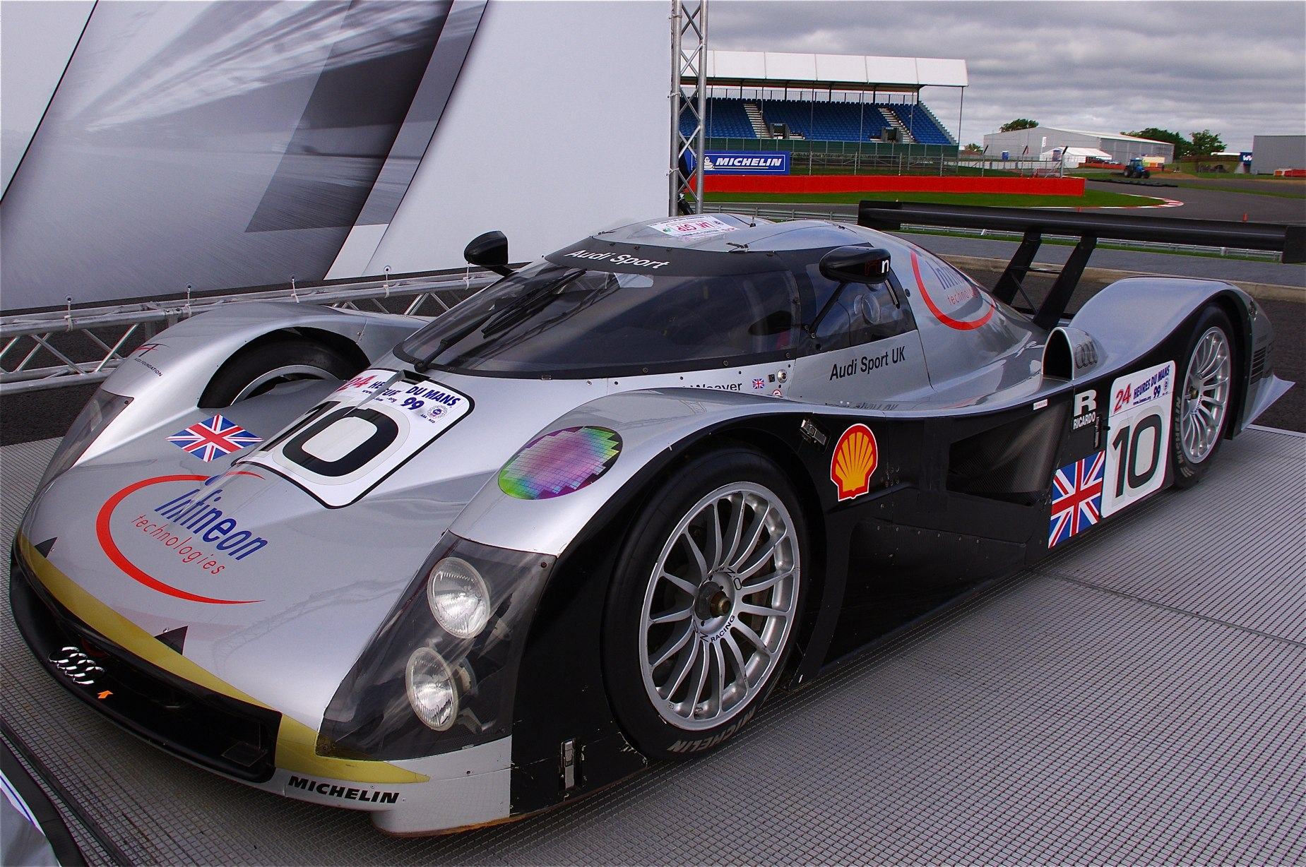 Audi Sport Team Joest's Audi R8C - DNF Le Mans 1999, displayed at the 6 Hours of Silverstone 2011